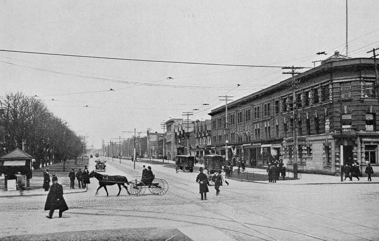 Spadina Avenue, looking north at Queen Street West.